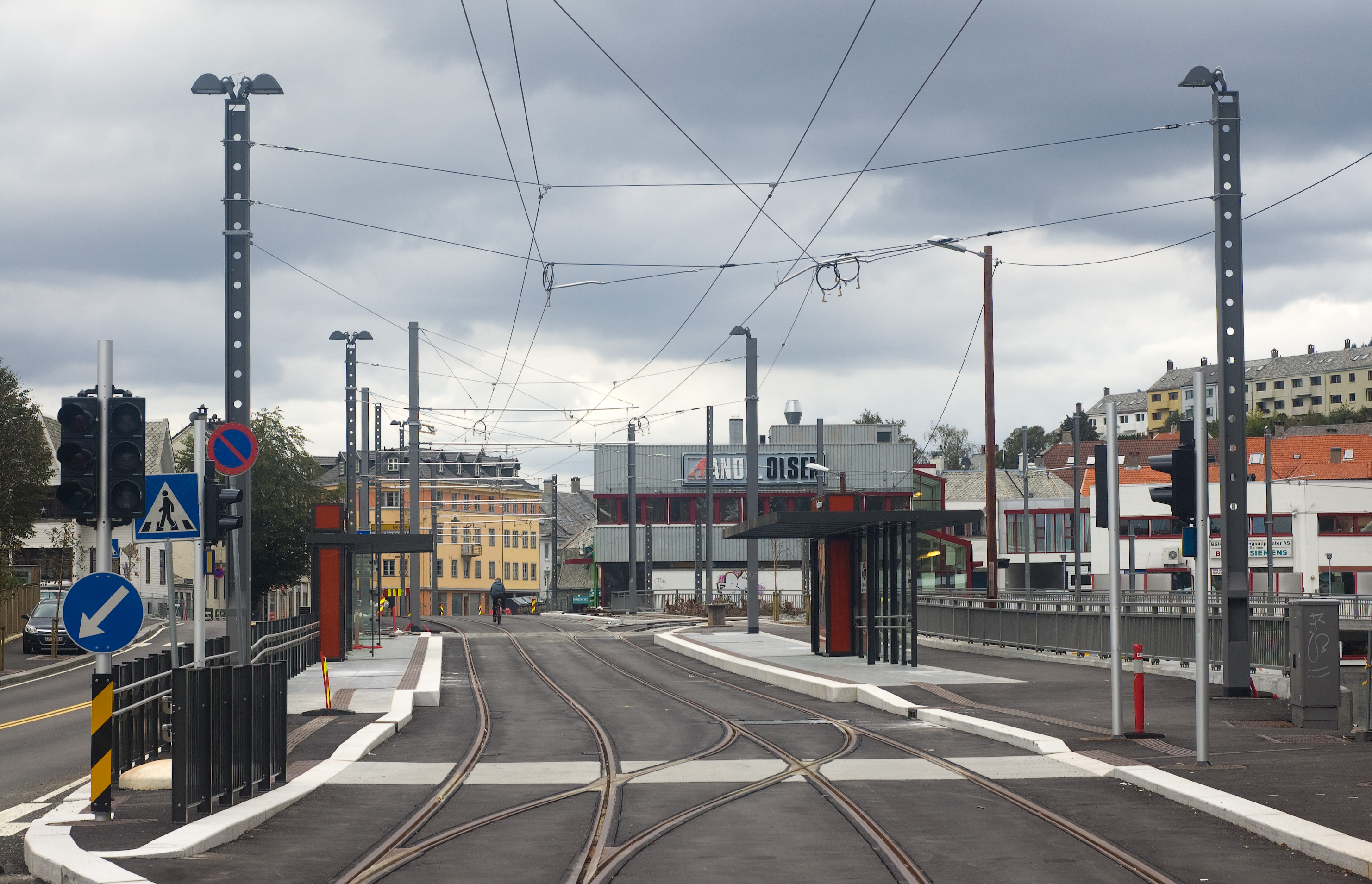 Kronstad station on the Bergen Light Rail system in Bergen, Norway.